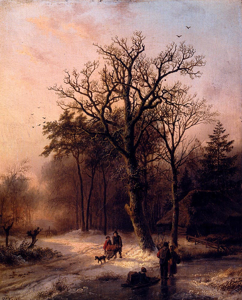 Forest In Winter